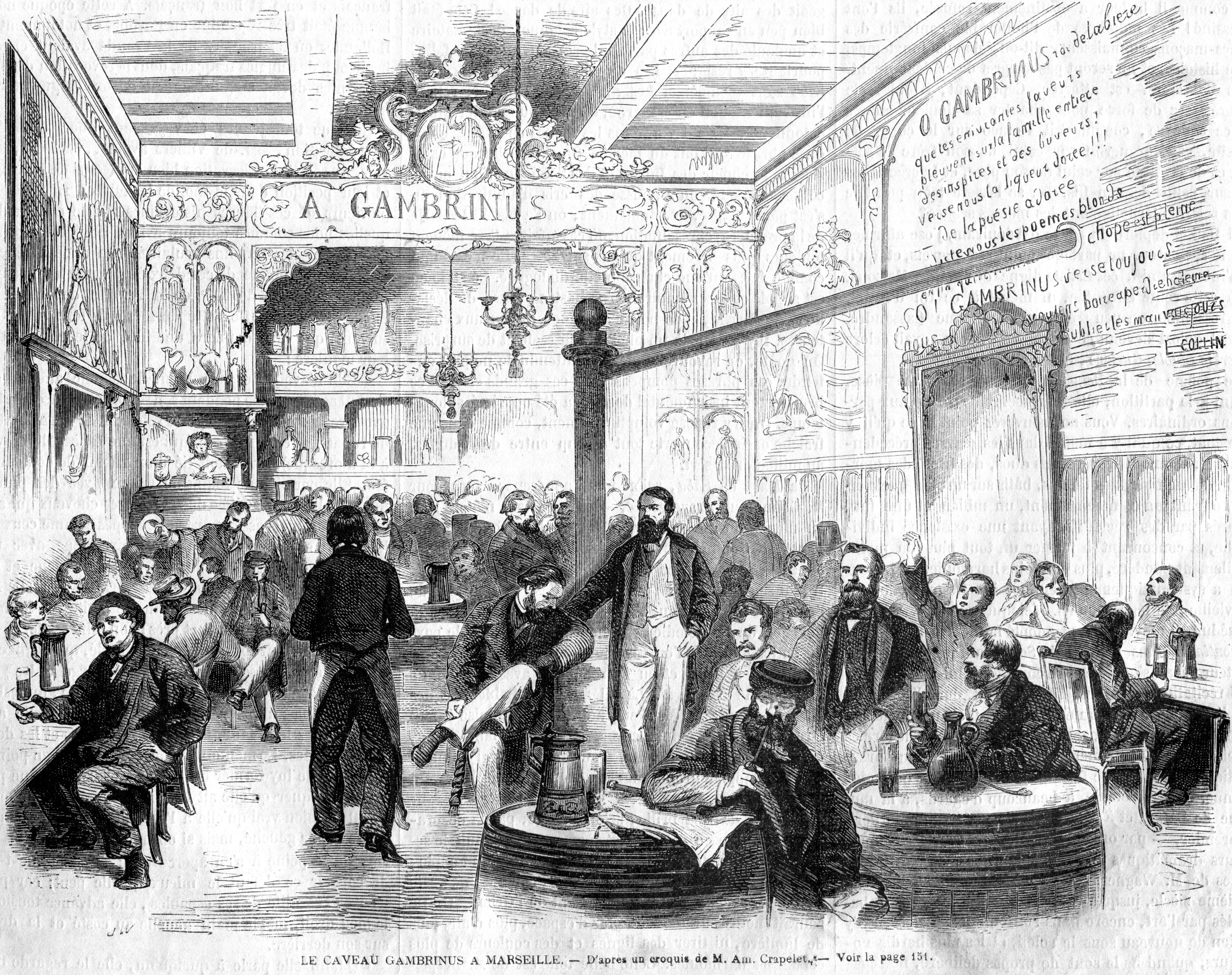 L'Illustration 1862 gravure Le caveau Gambrinus à Marseille, ouvert en 1861.